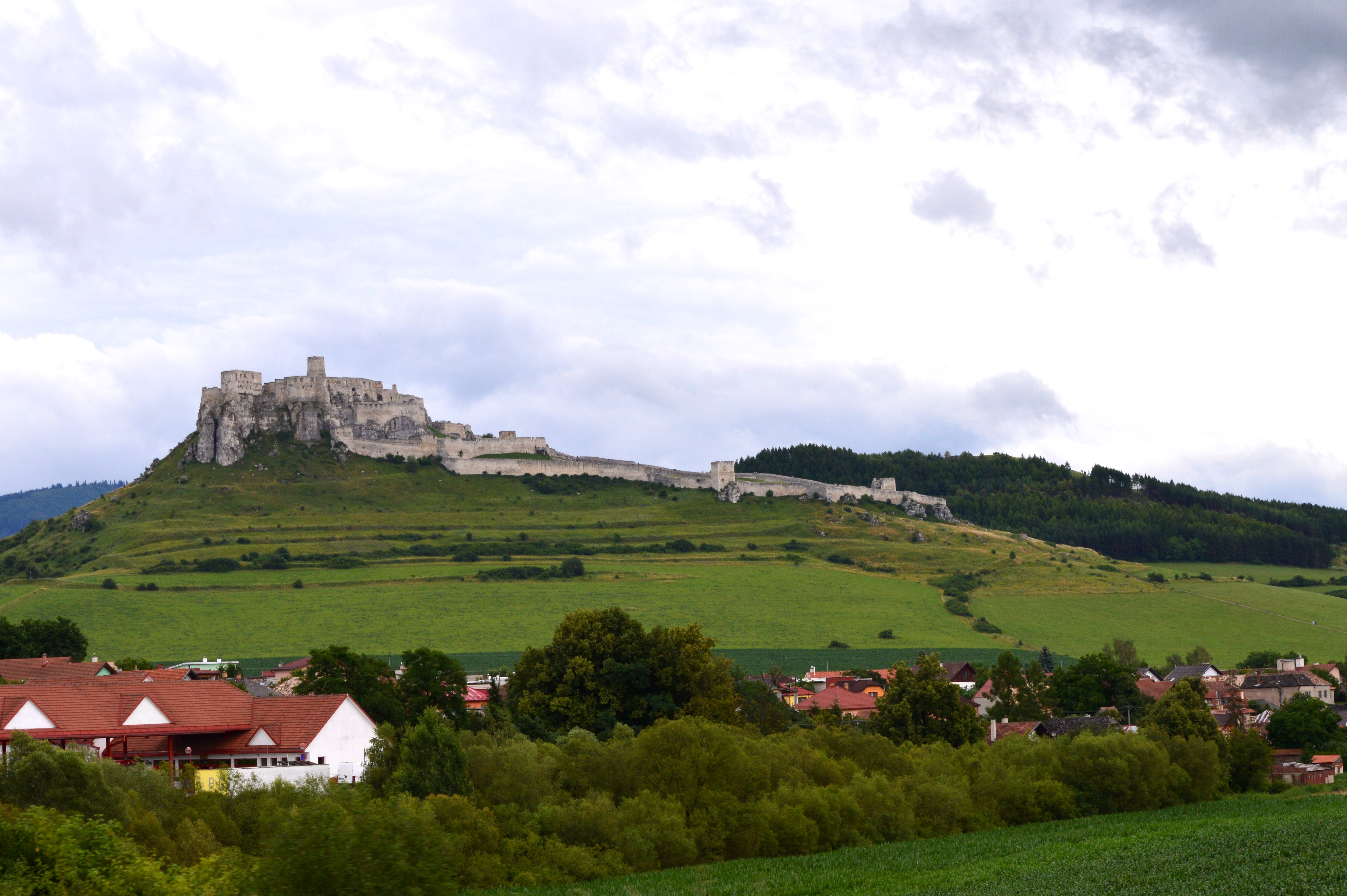 The ruins of Spiš Castle (Spišský hrad) in eastern Slovakia form one of the largest castle sites in Central Europe. The castle is situated above the town of Spišské Podhradie and the village of Žehra, in the region known as Spiš. It was included in the UNESCO list of World Heritage Sites in 1993 (together with the adjacent locations of Spišská Kapitula, Spišské Podhradie and Žehra). This is one of the biggest European castles by area. Spiš Castle was built in the twelth century on the site of an earlier castle. It was the political, administrative, economic and cultural centre of Szepes County of the Kingdom of Hungary. Before 1464, it was owned by the kings of Hungary, afterwards (until 1528) by the Zápolya family, the Thurzó family (1531–1635), the Csáky family (1638–1945), аnd (since 1945) by the state of Czechoslovakia then Slovakia. The Scotch Mist Gallery contains many photographs of historic buildings, monuments and memorials of Poland and beyond.